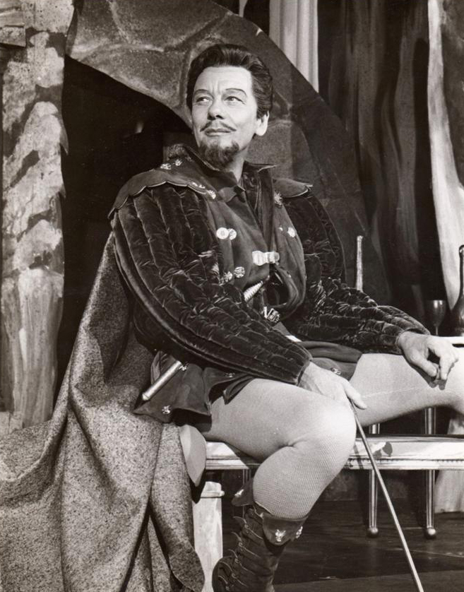 Promotional image of John Gielgud in the 1959 Broadway production of Much Ado About Nothing